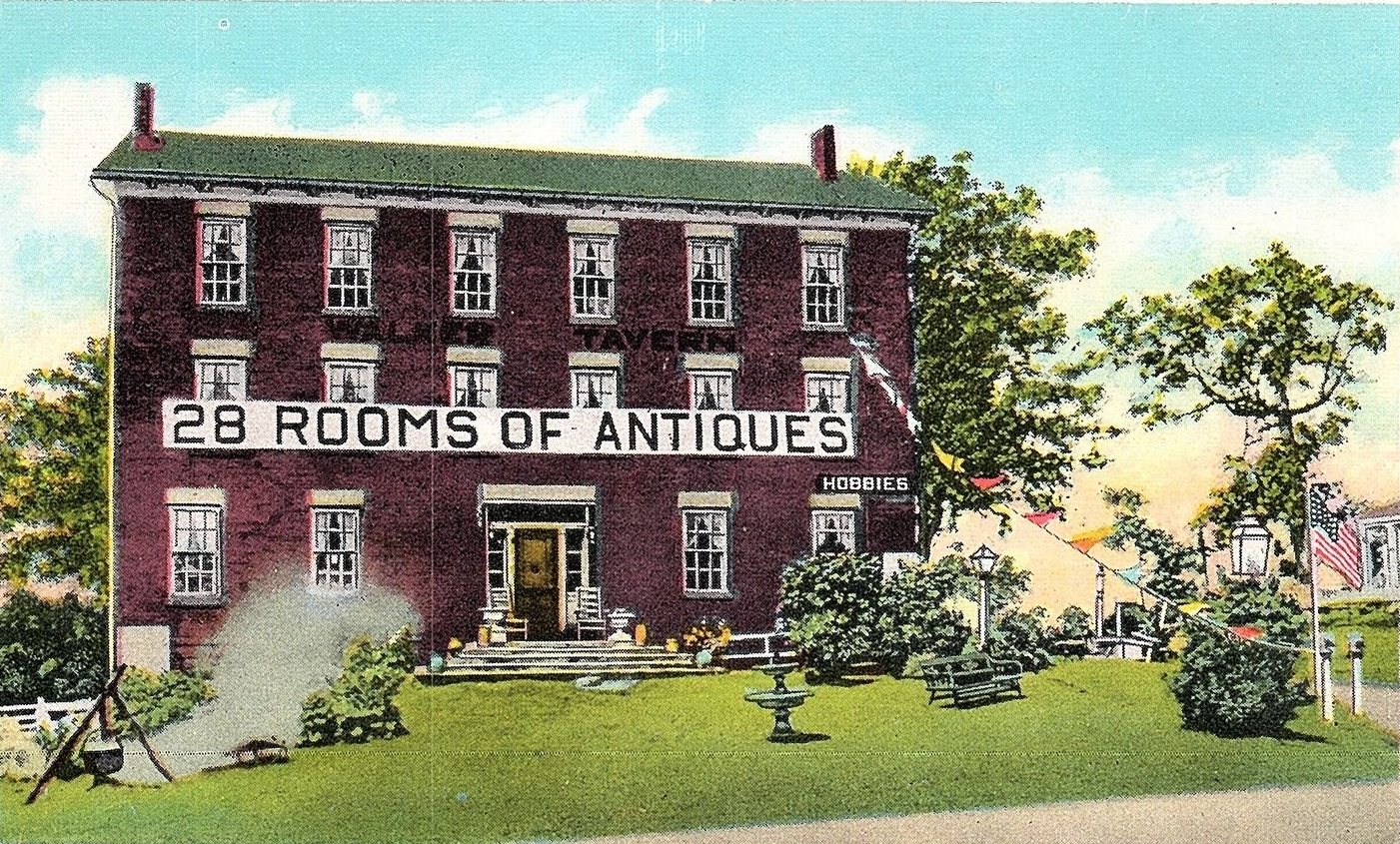 Walker's Brick Tavern, Cambridge Township, Michigan.